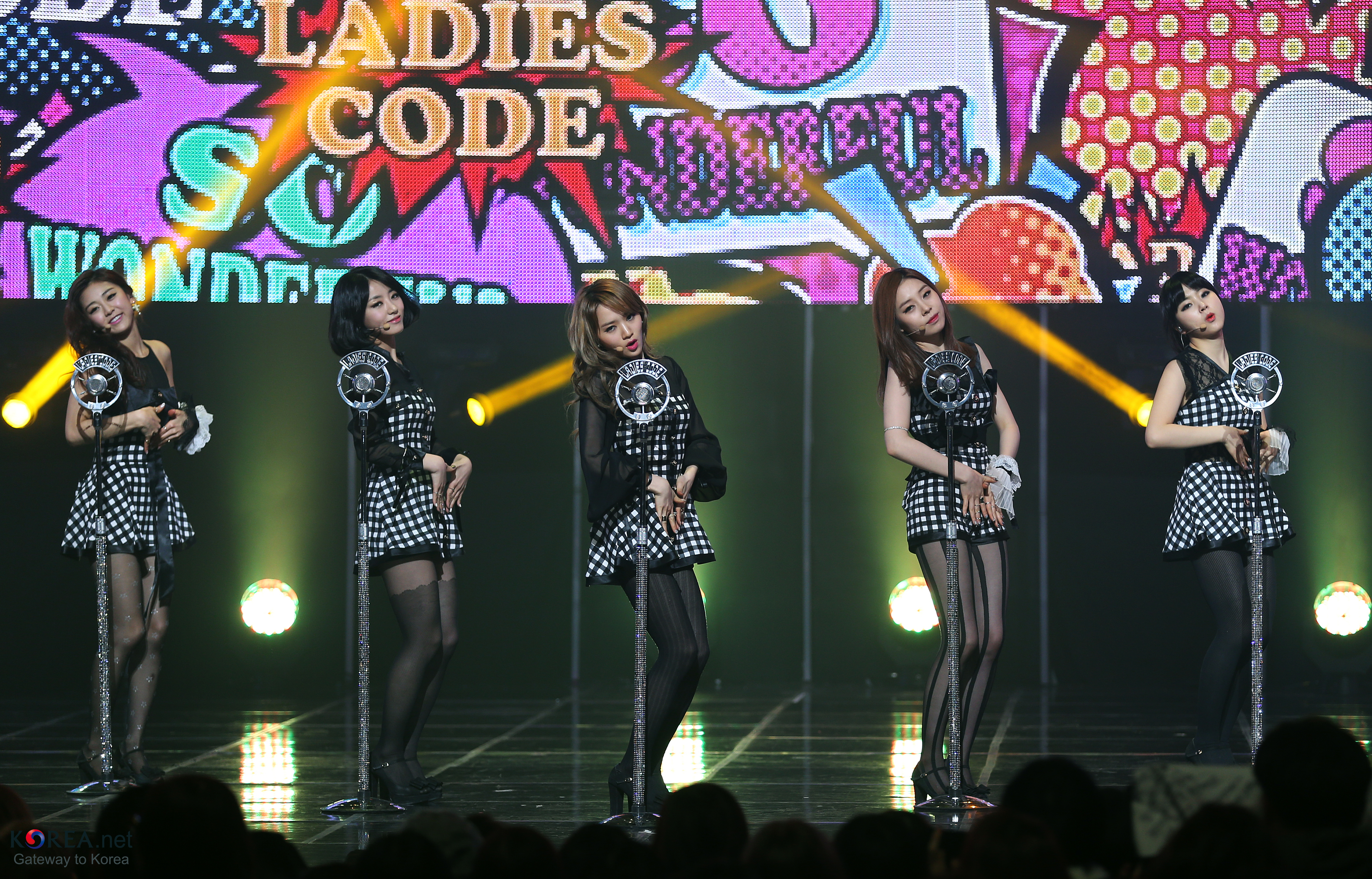 Mcountdown Ladies’ Code ‘So Wonderful’ Rise, So Jung, Ashley, EunB, Zuny CJ E&M Center, Sangam-dong, Mapo-gu, Seoul 2014.03.06. Ministry of Culture, Sports and Tourism Korean Culture and Information Service ( Jeon Han 엠카운트다운 생방송 레이디스 코드(리세, 소정, 애슐리, 은비, 주니) ‘소 원더플’ 2014-03-06 CJ E&M 센터 문화체육관광부 해외문화홍보원 코리아넷 전한